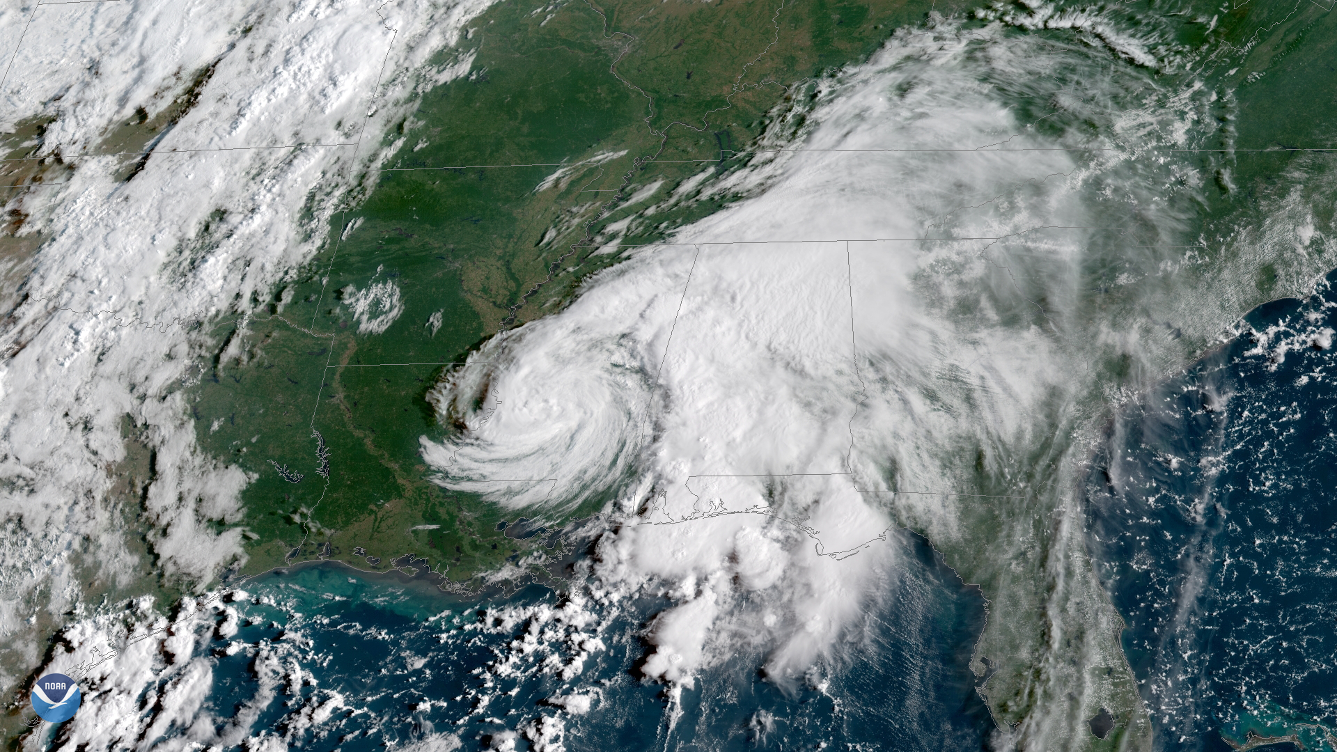 Tropical Storm Gordon, which made landfall near the Mississippi-Alabama border late on September 4, has weakened to a tropical depression. The storm battered the Gulf Coast with heavy rain and sustained winds of 70 mph – just shy of hurricane strength – causing flash flooding and widespread power outages. This image from the GOES East satellite shows Gordon moving inland the morning of September 5, with its center of circulation over western Mississippi. This geocolor-enhanced imagery was created by NOAA's partners at the Cooperative Institute for Research in the Atmosphere. The GOES East geostationary satellite, also known as GOES-16, provides coverage of the Western Hemisphere, including the United States, the Atlantic Ocean and the eastern Pacific. The satellite's high-resolution imagery provides optimal viewing of severe weather events, including thunderstorms, tropical storms and hurricanes.